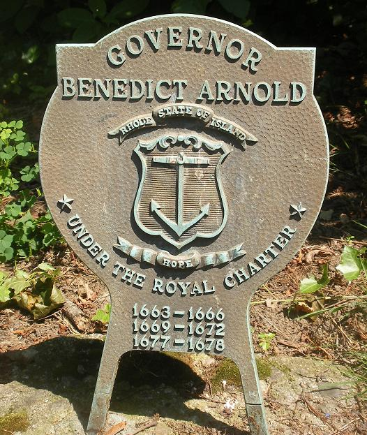 Governor Benedict Arnold grave medalion, Arnold Burying Ground, Pelham Street, Newport, Rhode Island